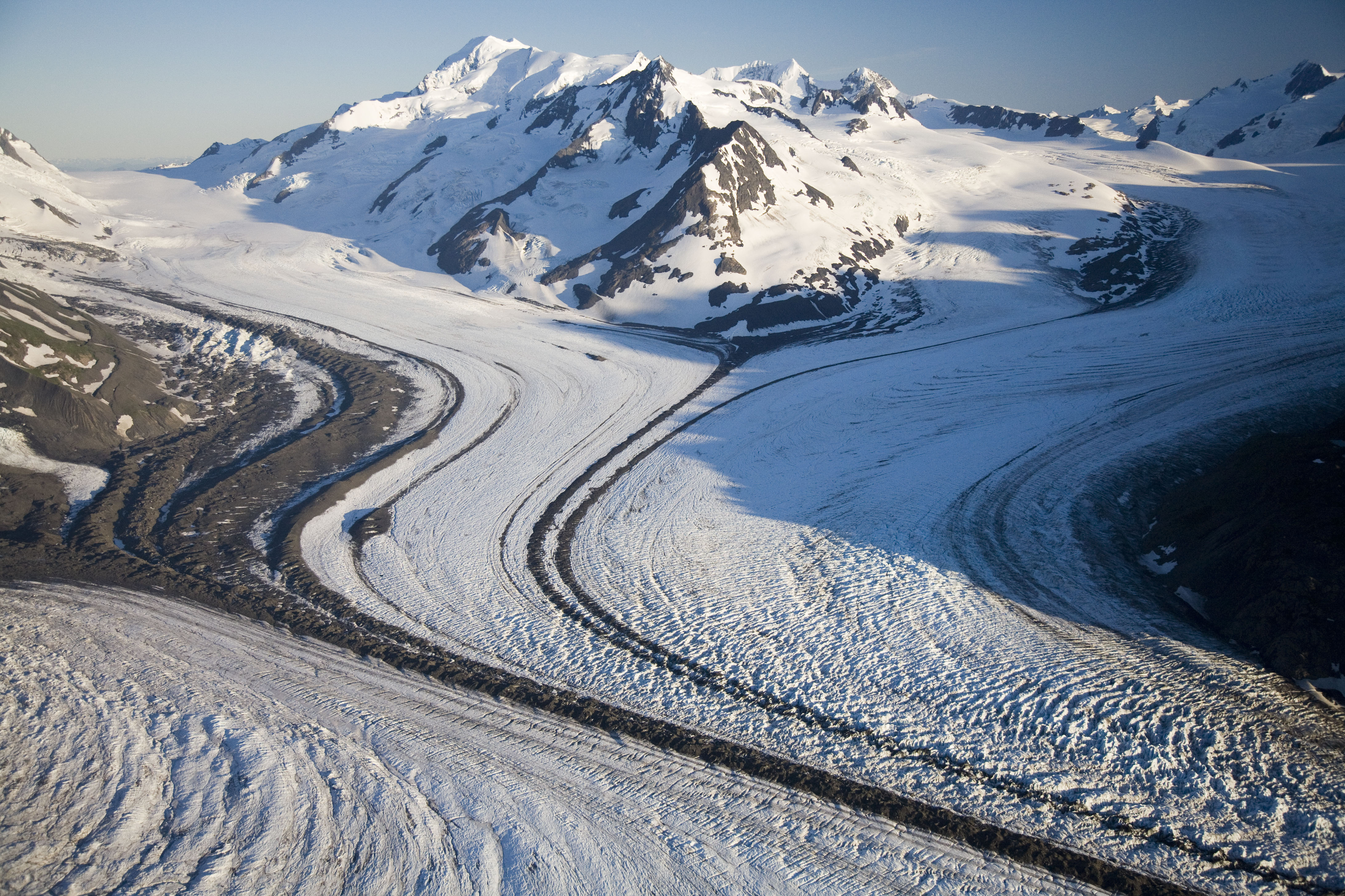 Aerial of glaciers coming together to create Colony Glacier, Chugach Mountains, Prince William Sound, Chugach National Forest, Alaska.